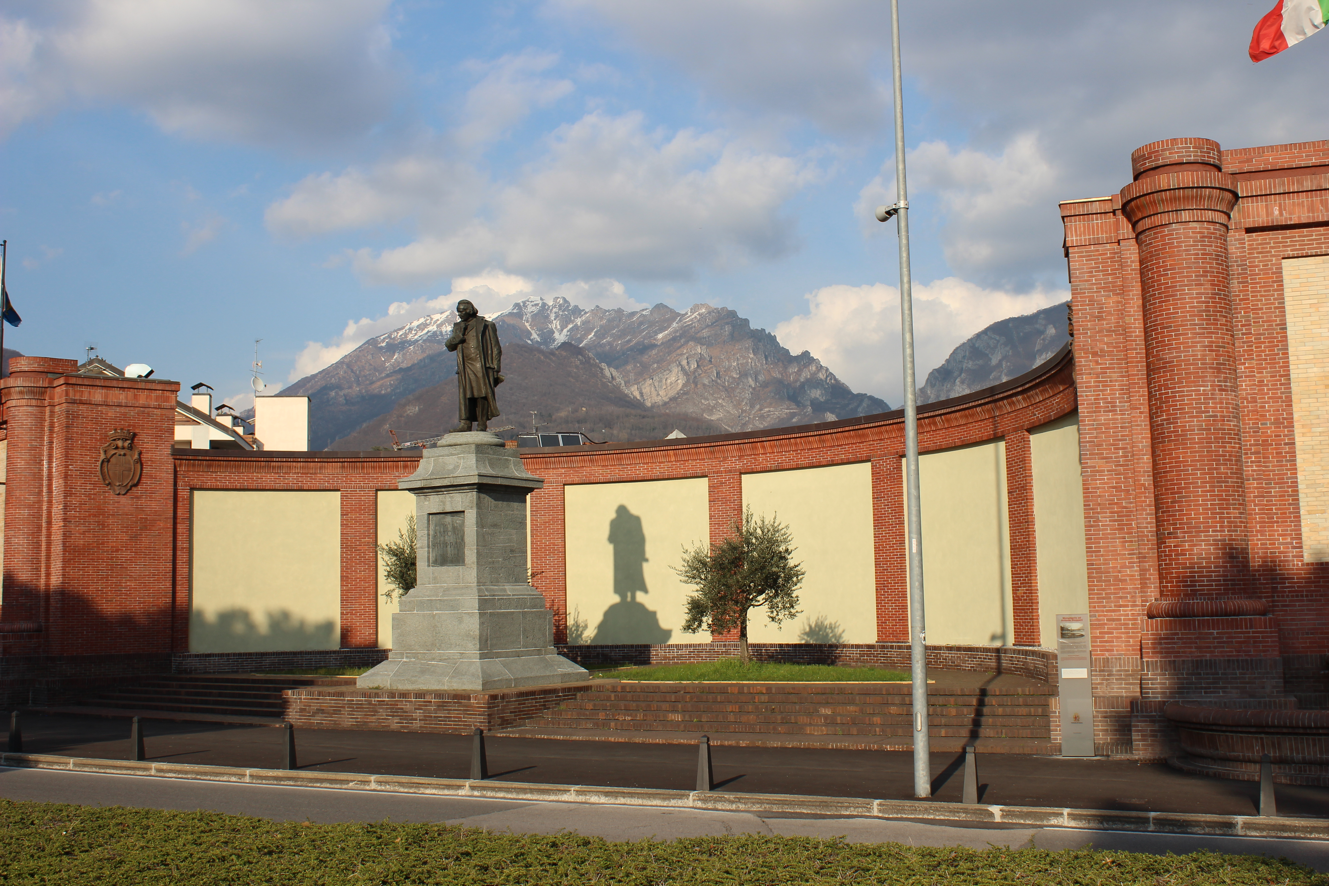 Monument to Antonio Stoppani in the Lecco, Italy